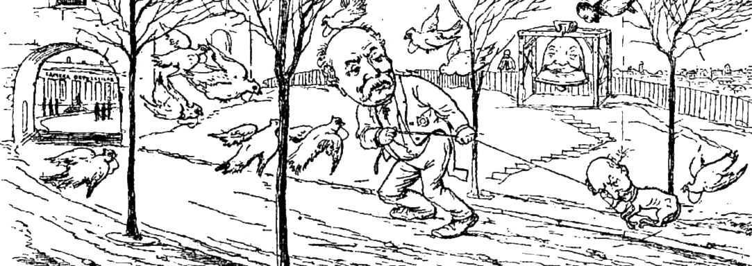 Haĭ la deal, Samurache! ("Let's you and I go uphill, pooch!"), cartoon published in Moftul Român, the Romanian satirical paper. It depicts the Conservative government forcing the reluctant Junimist faction into a subservient position. The scene takes place on Dealul Mitropoliei, Bucharest, more specifically on the slope leading up to the Romanian Assembly of Deputies; Premier Lascăr Catargiu is the master, Junimist speaker Petre P. Carp a lapdog.